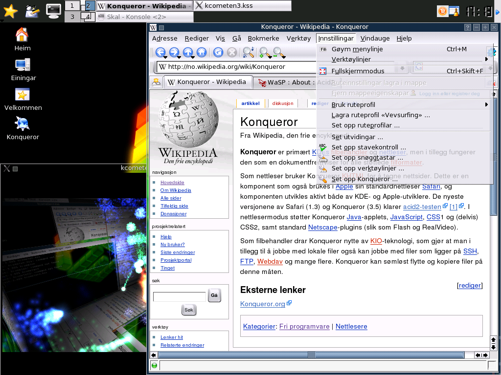 Screenshot of the K Desktop Environment (KDE) version 3.4.2 with the "Nynorsk" language (Norwegian), the default "Crystal" icons and the "Crystal" window decoration. Programs shown are "Konqueror" and the screensaver "Kcometen3" running in "Konsole". The window decoration and screensaver are open source software downloaded from The other mentioned software are part of the K Desktop Environment. Konqueror is showing a page from the norwegian-bokmål language Wikipedia.